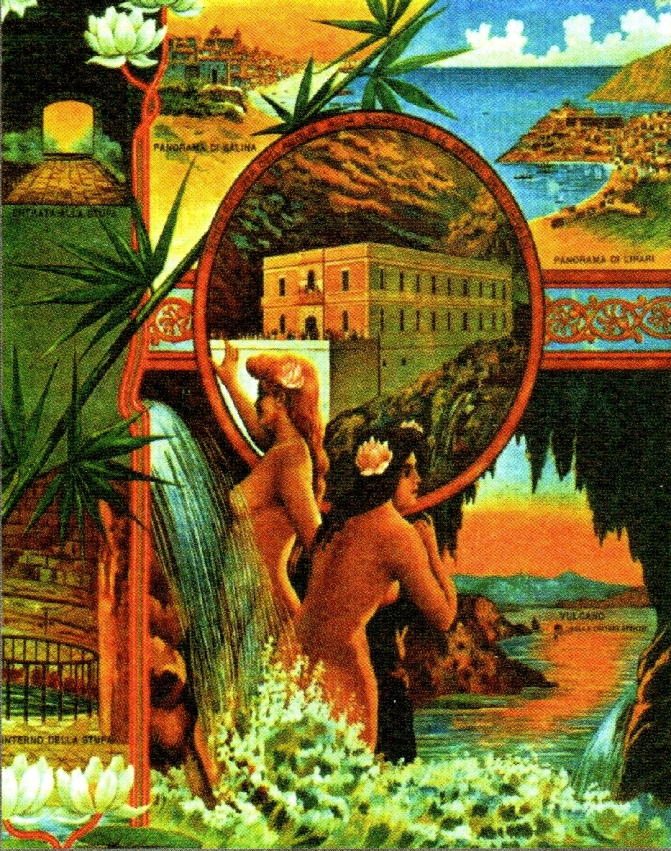 Advertisement of the San Calogero spa in Lipari, Sicily (1903)